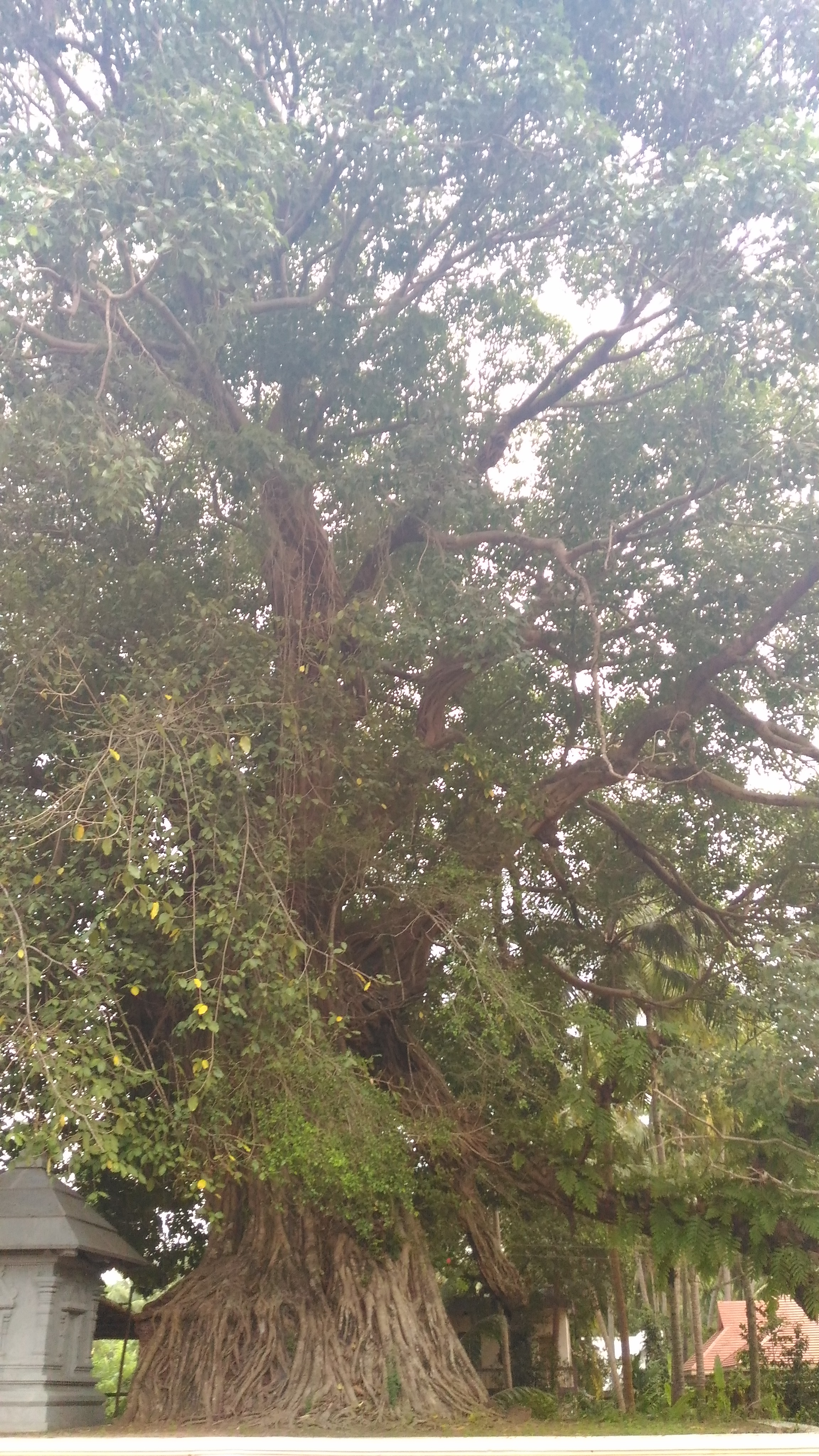 A very big arayal in front of Kizhur Sastha Temple